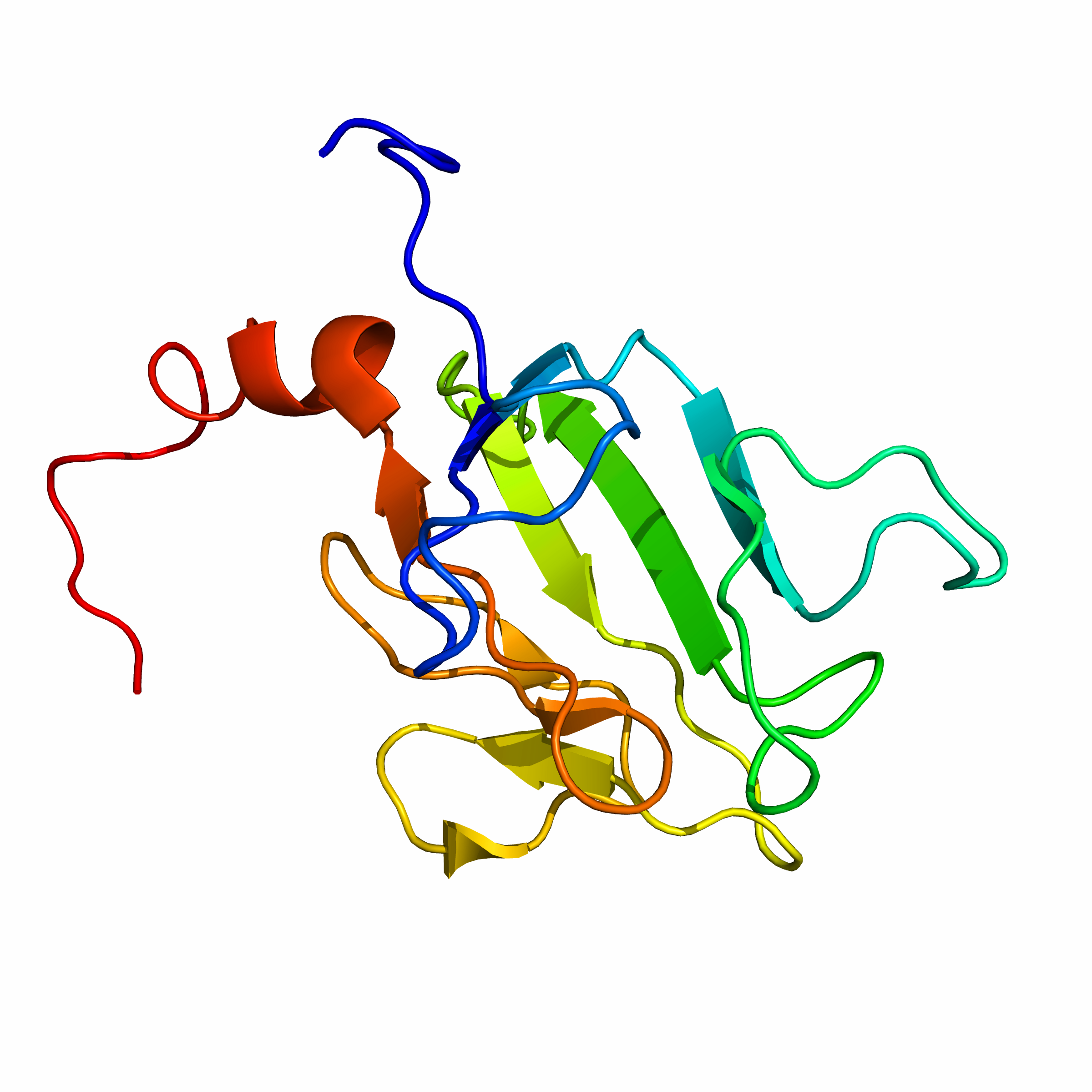 Ribbon model of KIF1B, after PDB: 2EH0​